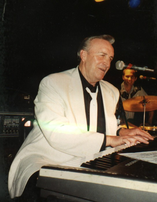 Hayden Thompson performing at the Beat Kitchen in Chicago - Oct 1992